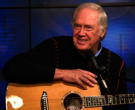 Photo taken and submitted by Phil Konstantin. I give my permission for anyone to use this photo.